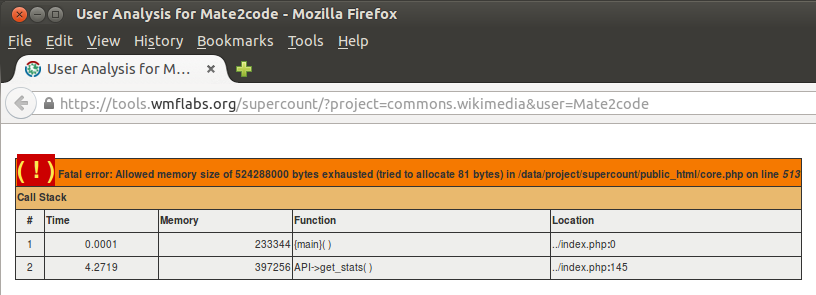 Fatal error: Allowed memory size of 524288000 bytes exhausted (tried to allocate 72 bytes) in /data/project/supercount/public_html/core.php on line 513 Xdebug error message I saw when I tried to see my number of edits.